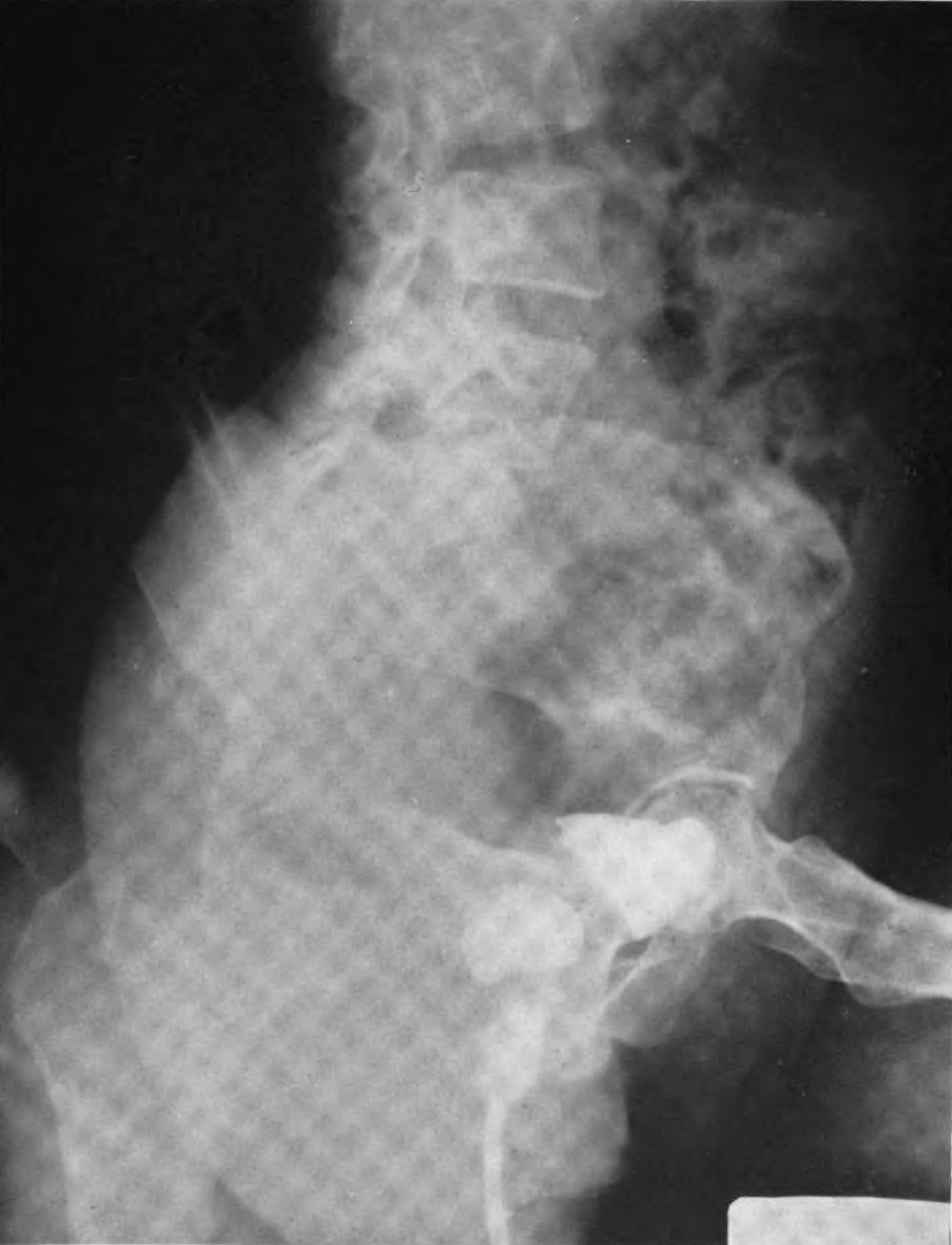 Clinical Urology